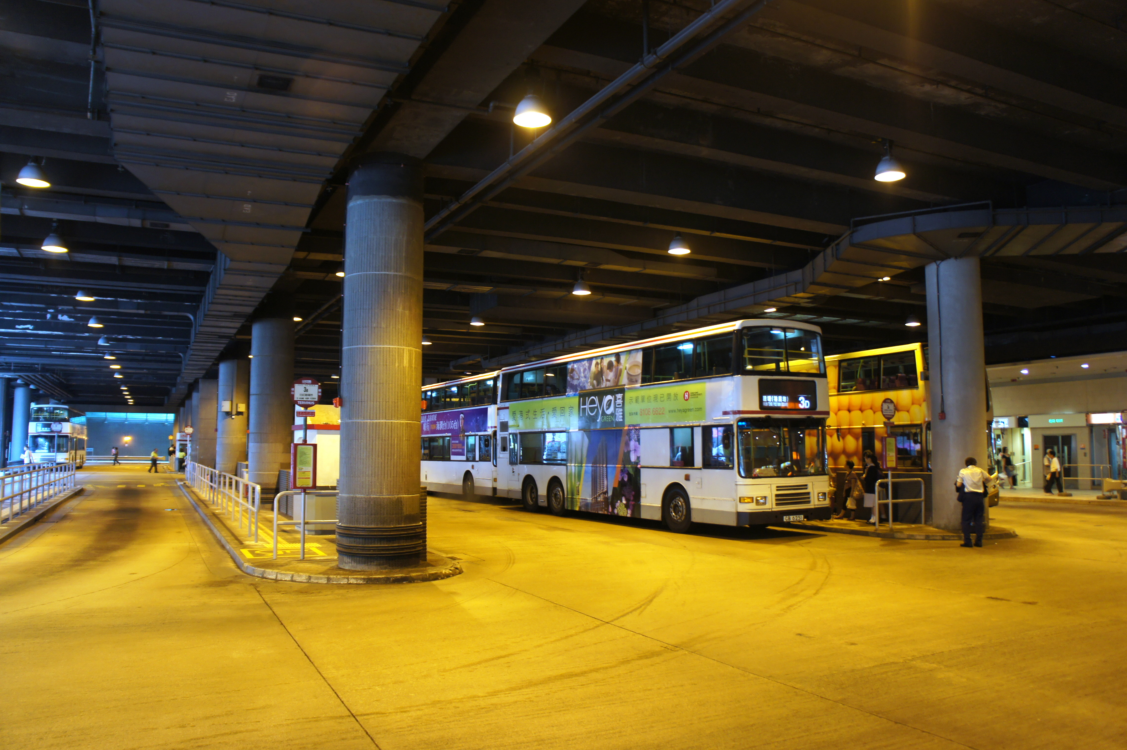 Tsz Wan Shan (Central) Bus Terminus, Kowloon, Hong Kong.